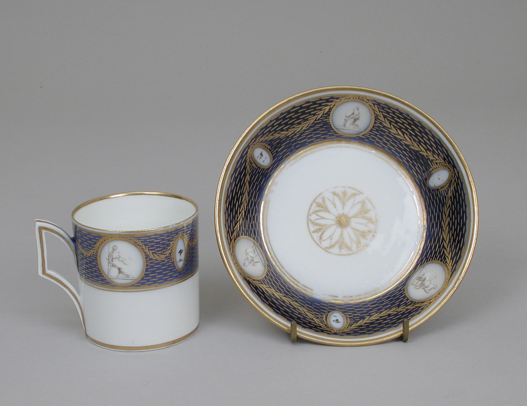 German, Thuringia (Gotha); Cup and saucer; Ceramics-Porcelain